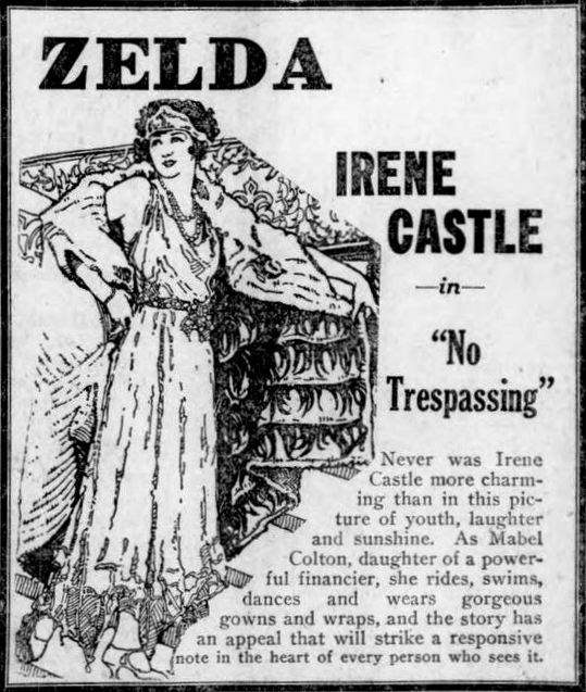 Newspaper advertisement for the American drama film No Trespassing (1922) with Irene Castle, on page 5 of the August 19, 1922 Duluth Herald.